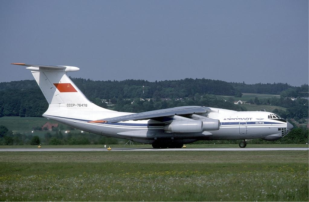 Ilyushin Il-76TD of Aeroflot at Zurich Airport